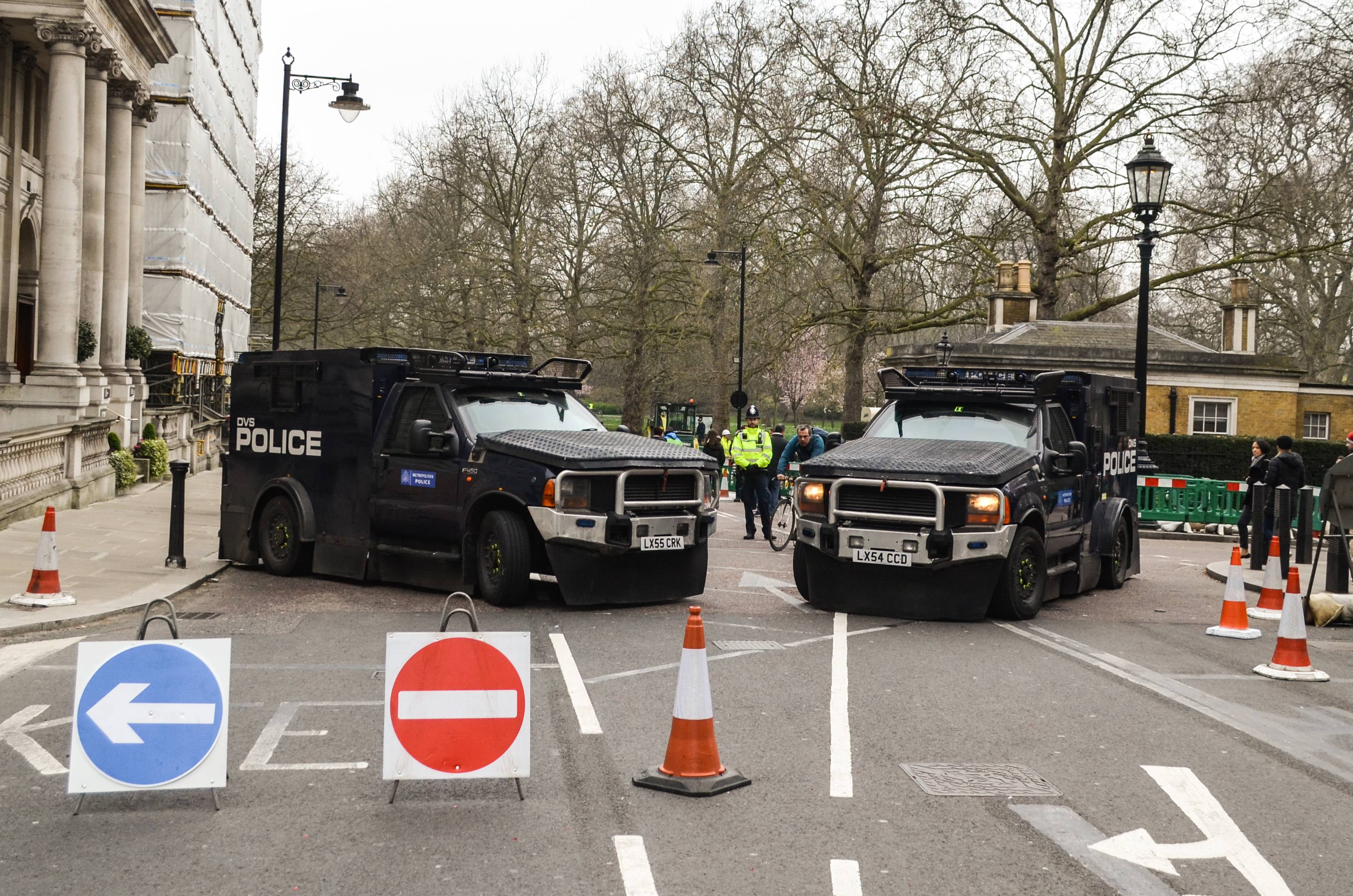 Metropolitation Police Service Jankel Guardian armoured vehicles based on a Ford F-450 chassis guard roads around Parliament Square following the Westminster attack on 22 March 2017.